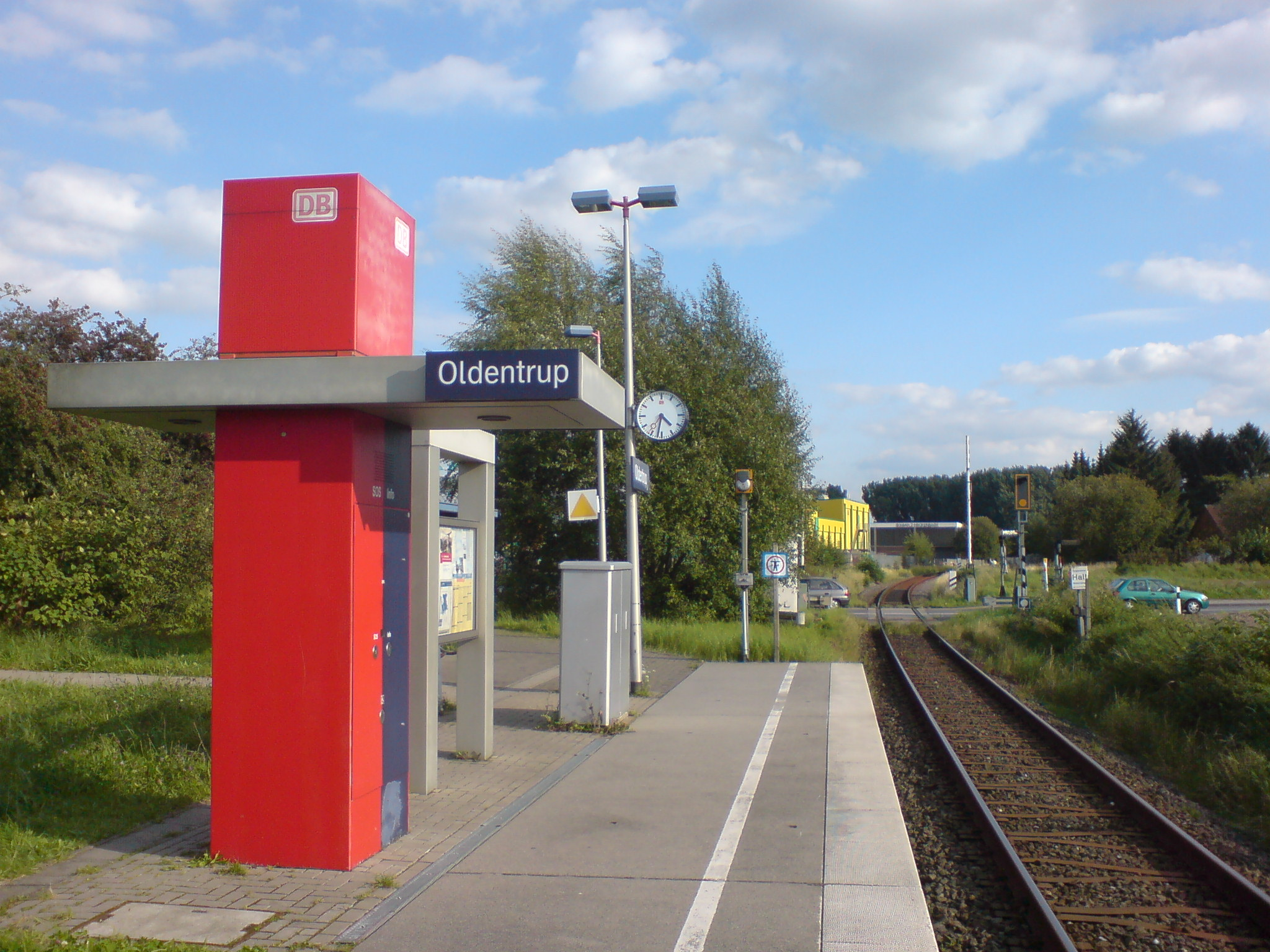 Bielefeld, Germany: Oldentrup train station.